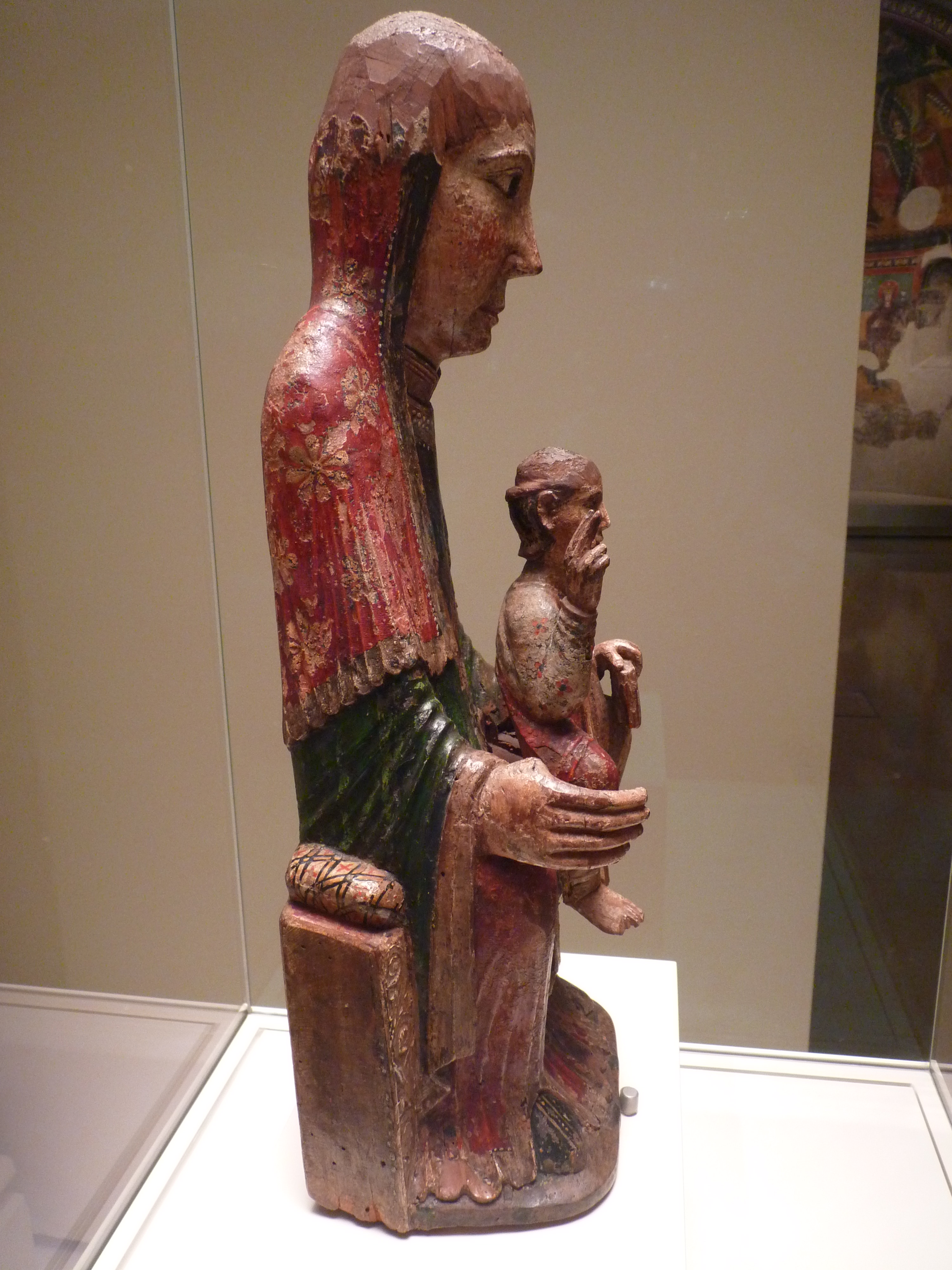 Virgin from Ger. Second half of the 12th century.